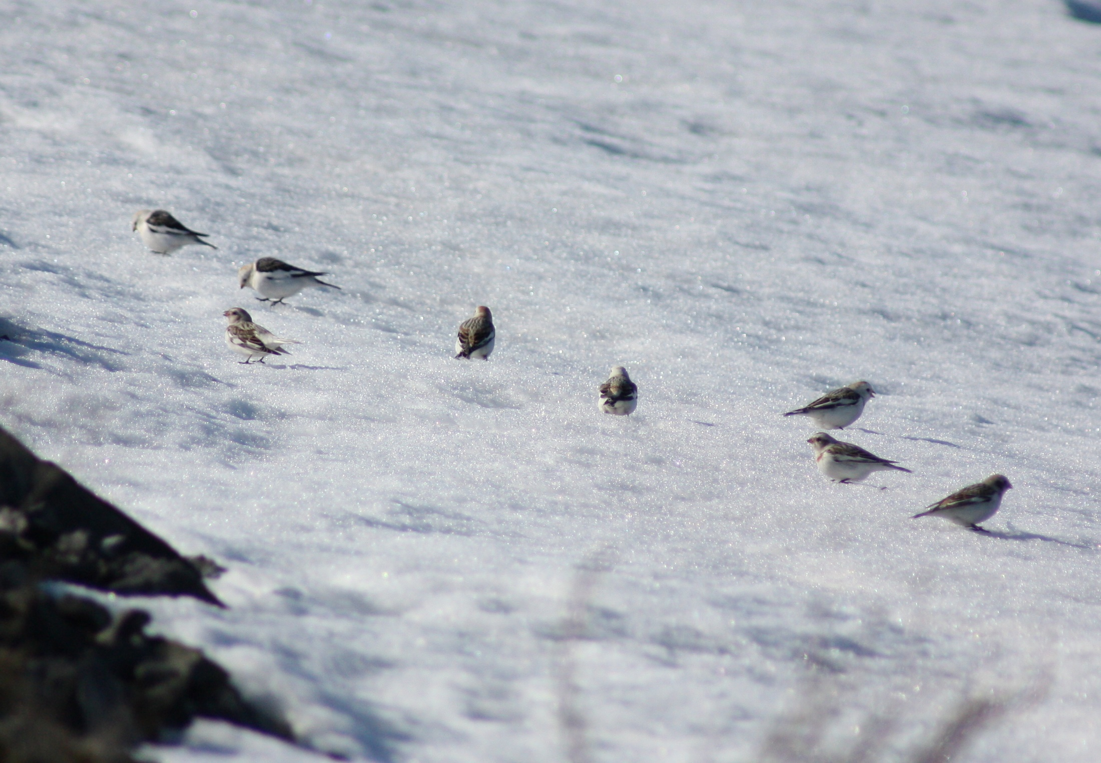 Snow Buntings (Plectrophenax nivalis) near the breakwater of Toppilansaari, Oulu.